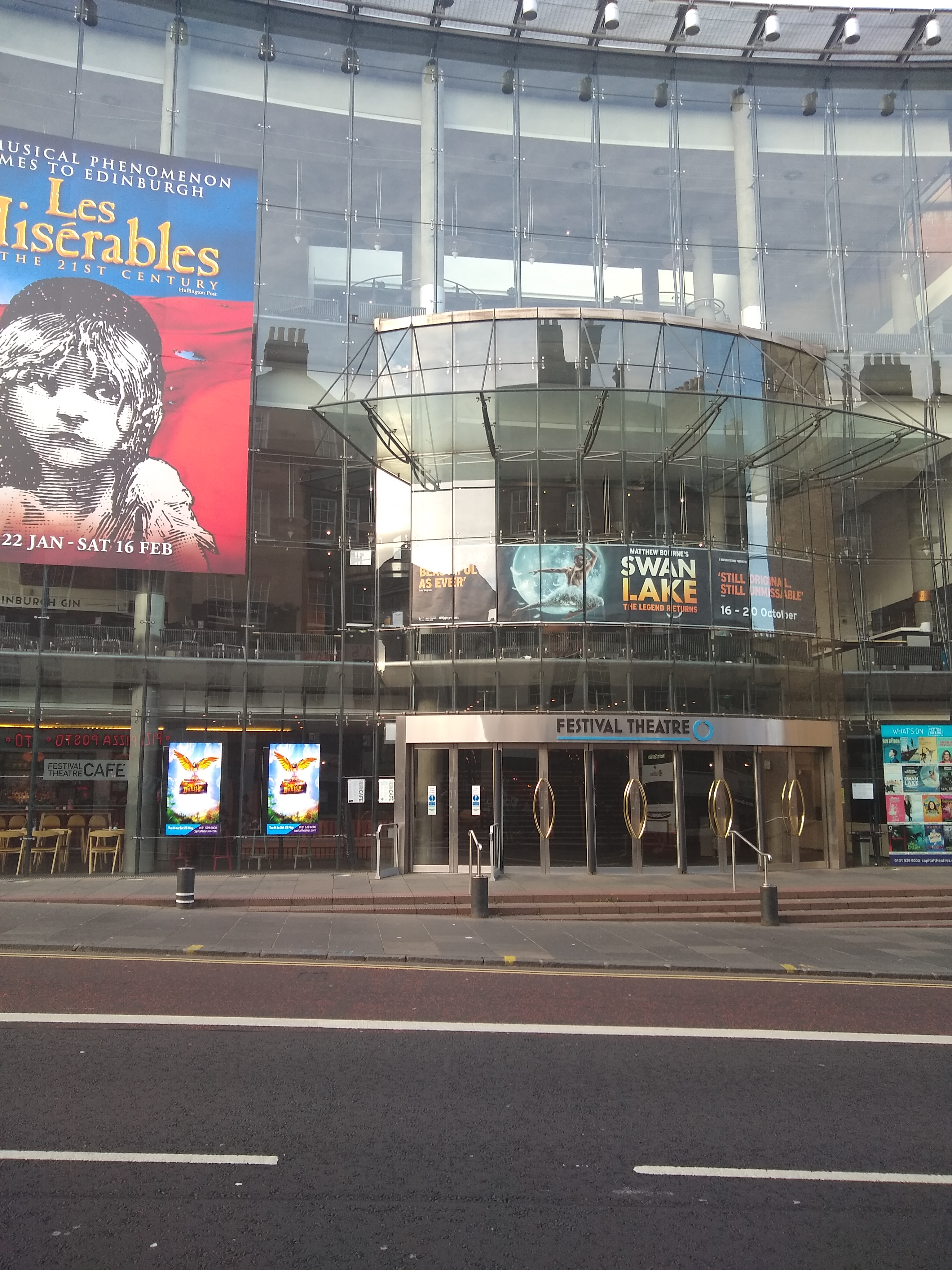 This is a photograph of the Festival Theatre in Edinburgh